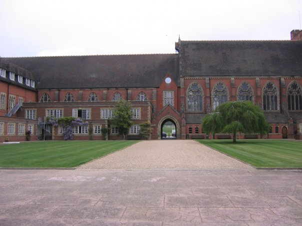 Ardingly College, near Haywards Heath, West Sussex.